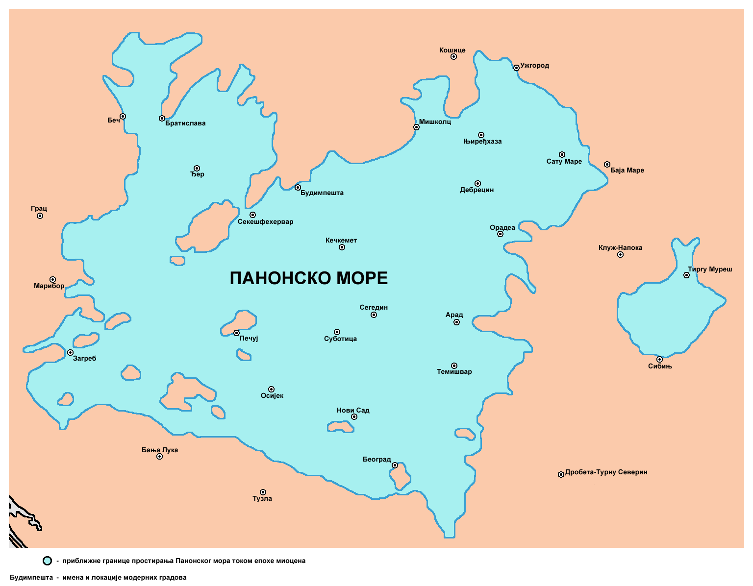 Approximate extent of Pannonian Sea during the Miocene Epoch.